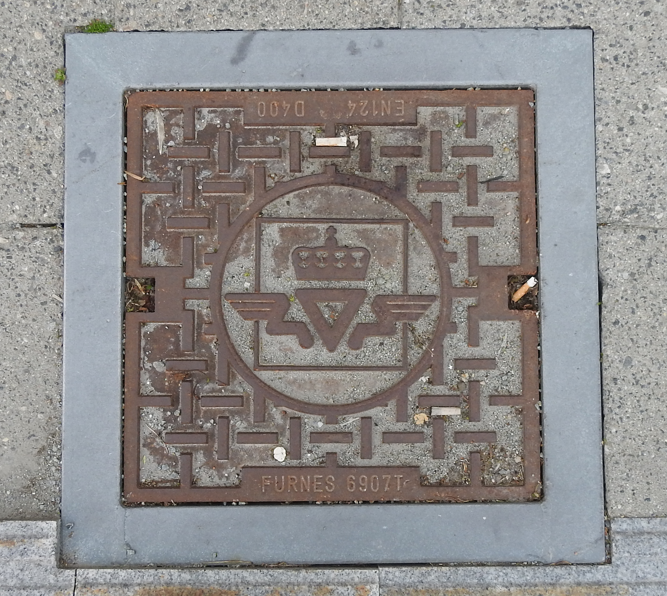 Manhole cover in Bodø, County Northland, Norway.